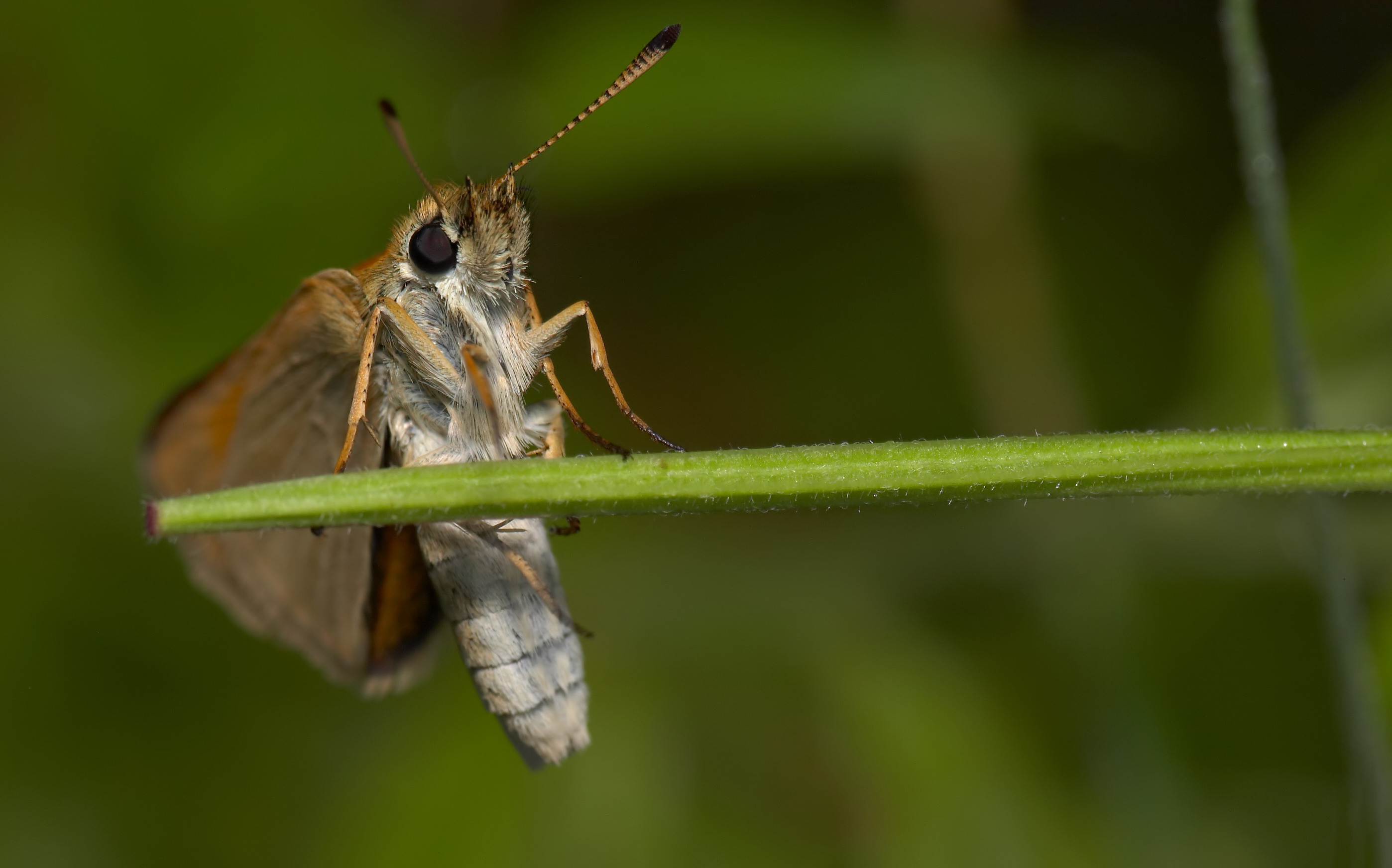 Ochlodes sylvanus (Large Skipper) Thymelicus lineola